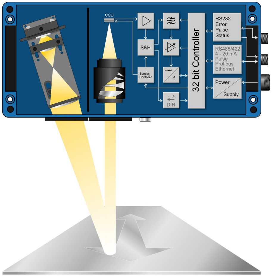 Block diagram of a velocity sensor based on CCD spatial filter method